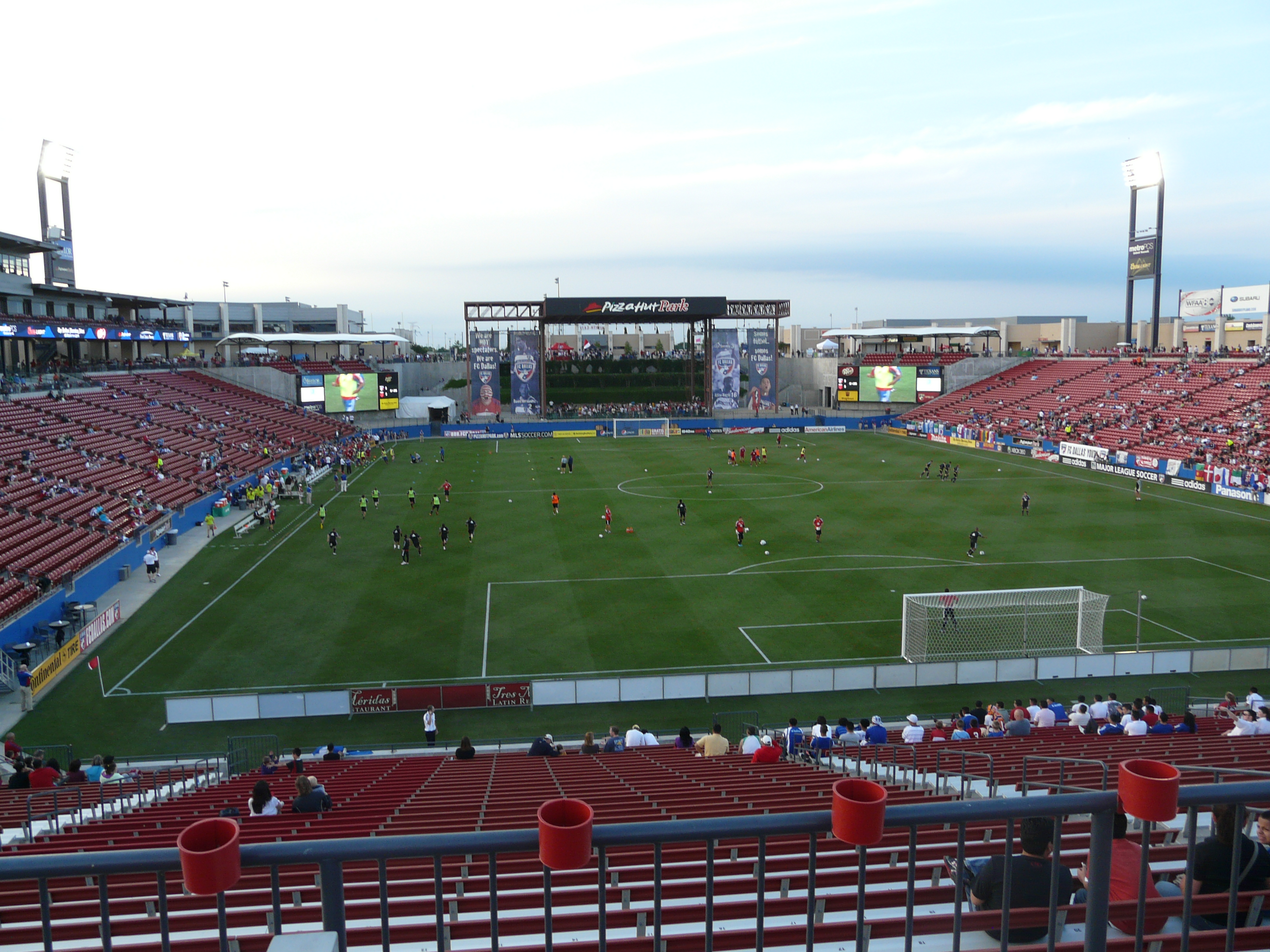 Looking towards the main stage at Pizza Hut Park in Frisco, Texas, during an FC Dallas game against DC United in 2010.